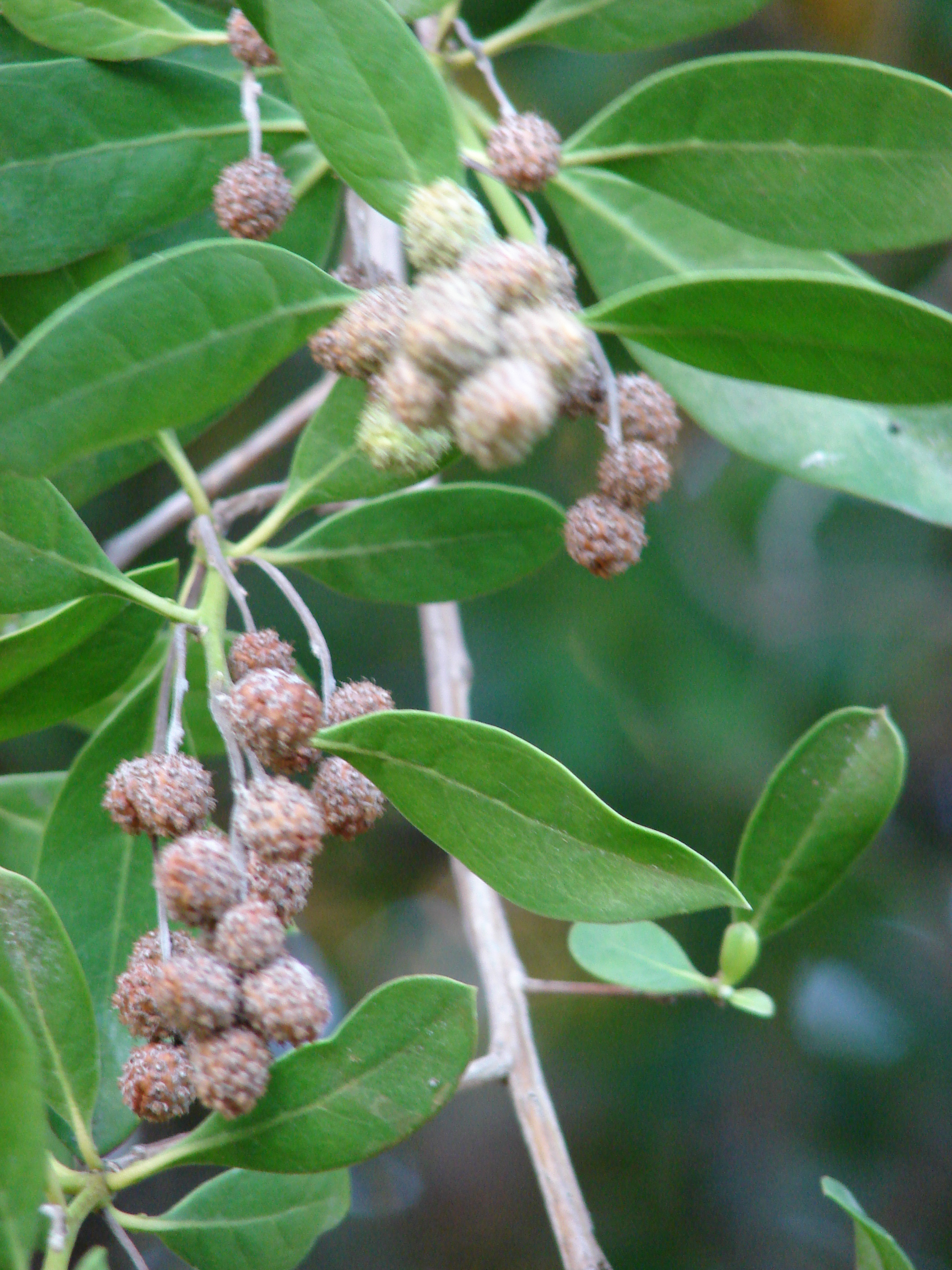 Conocarpus erectus (leaves and fruit). Location: Oahu, Ala Moana Beach Park